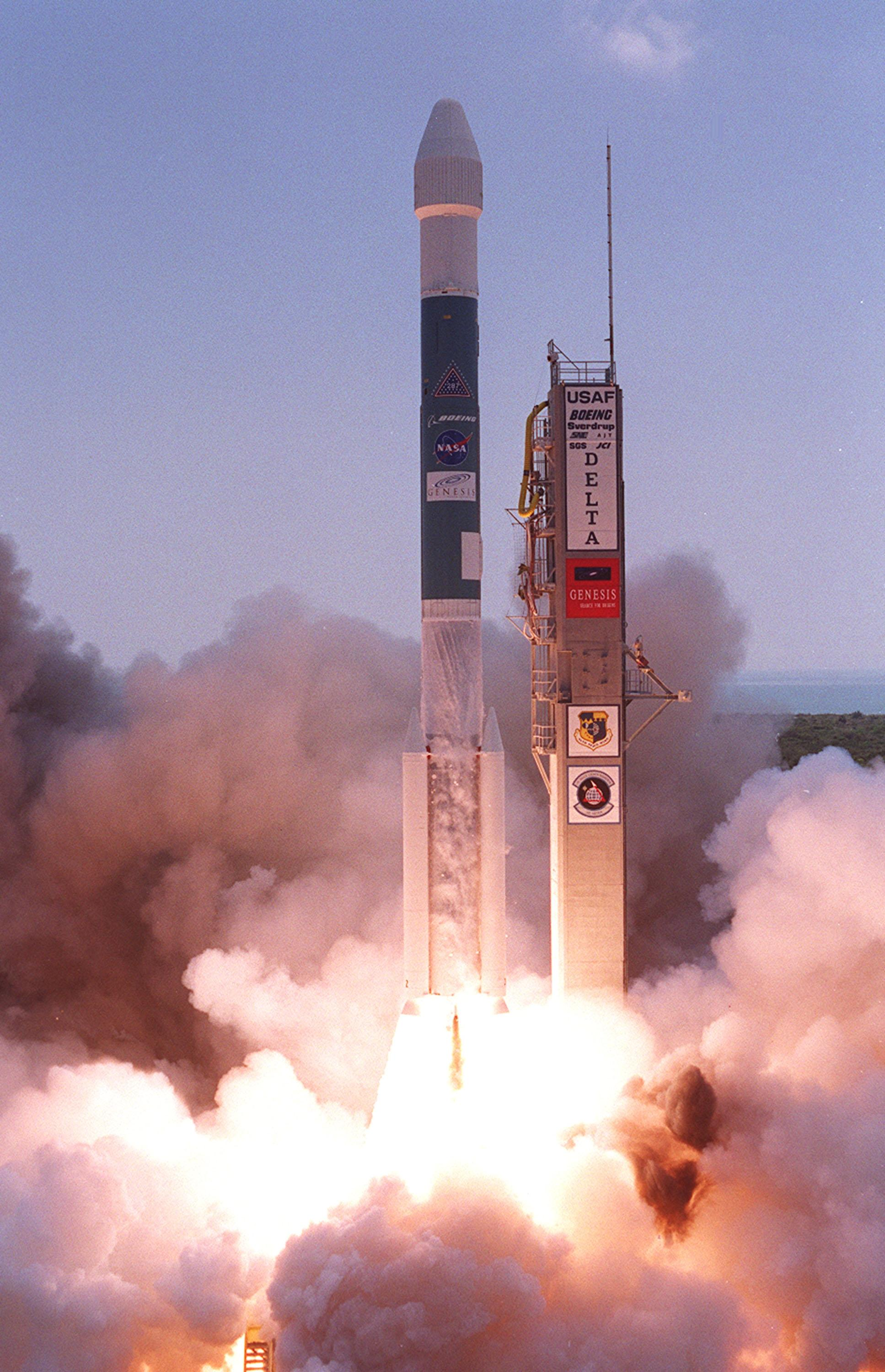 Flames light up the smoke and steam from the launch of Boeing Delta II rocket propelling NASA’s Genesis spacecraft into the sky. The Genesis/Delta launch occurred on time at 12:13:40 p.m. EDT. Genesis is on a journey to collect and return to Earth just 10 to 20 micrograms of solar wind, invisible charged particles that flow outward from the Sun. The particles will be studied by scientists over the next century to search for answers to fundamental questions about the exact composition of our star and the birth of our solar system.